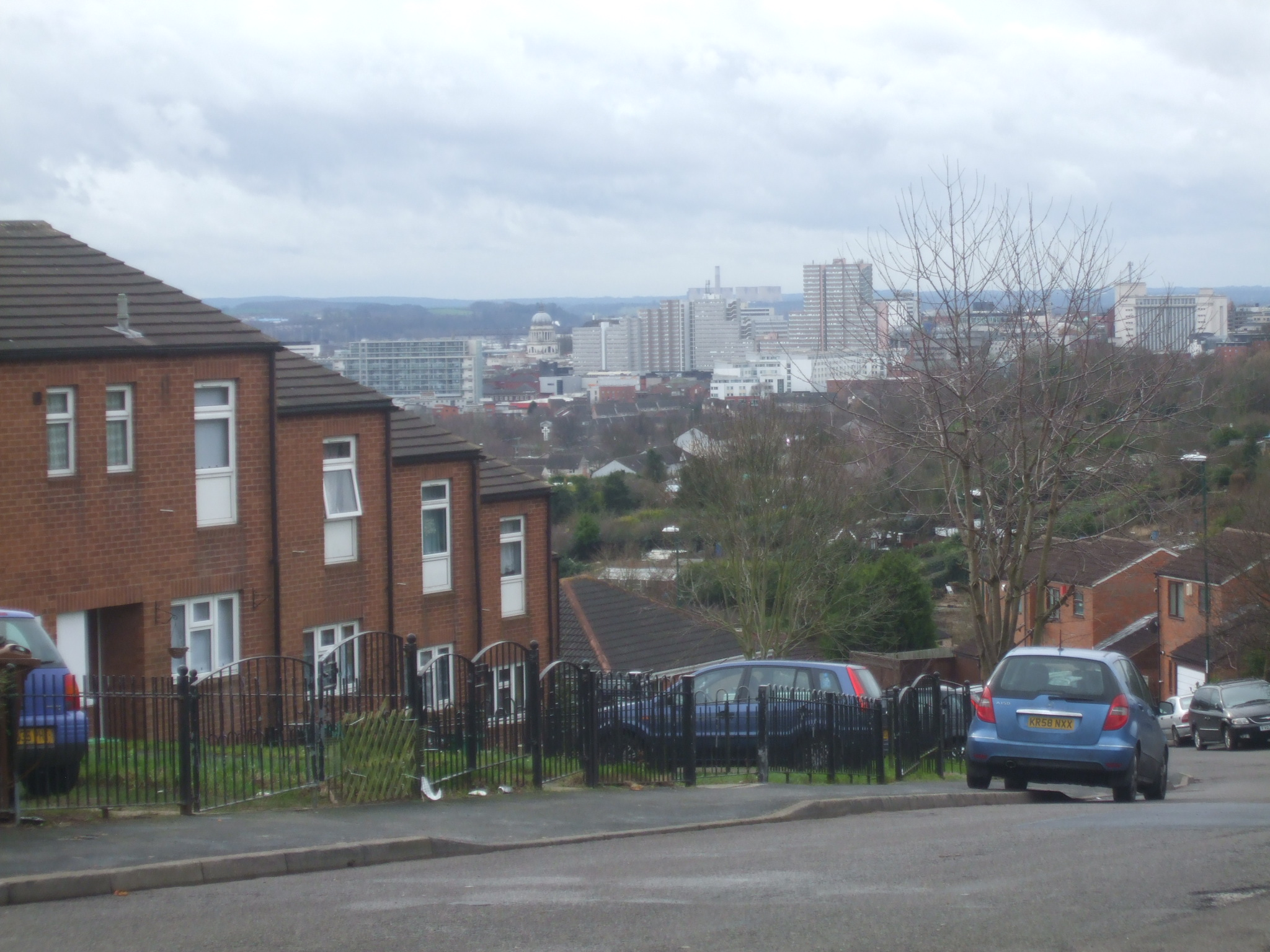 St Ann's is a council ward in Nottingham. It hosts a large council estate On Brewster Road, the road loops to gain height between the Gedney Avenue and Brandeth Ave- a network of paths and steps cut the corner. The bus stop is named Brewster Top.